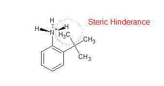 After protonation the hydrogen in amino group feels steric hindrance from group at ortho position which decreases the stability of conjugate acid and hence decreases the basicity.